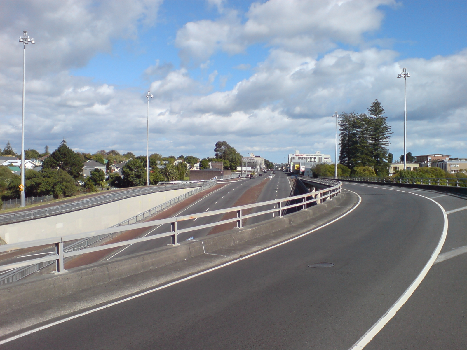 Part if the Ian McKinnon Flyover in Auckland City, New Zealand. Once constructed to have the future Dominion Road motorway (!) cross New North Road. Thankfully that never happened, but it's still impressive. Looking south to Dominion Road from the northbound flyover to New North Road.